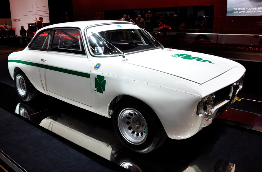 Alfa Romeo GTA 1300 Junior at the Geneva Salon, Switzerland 2009